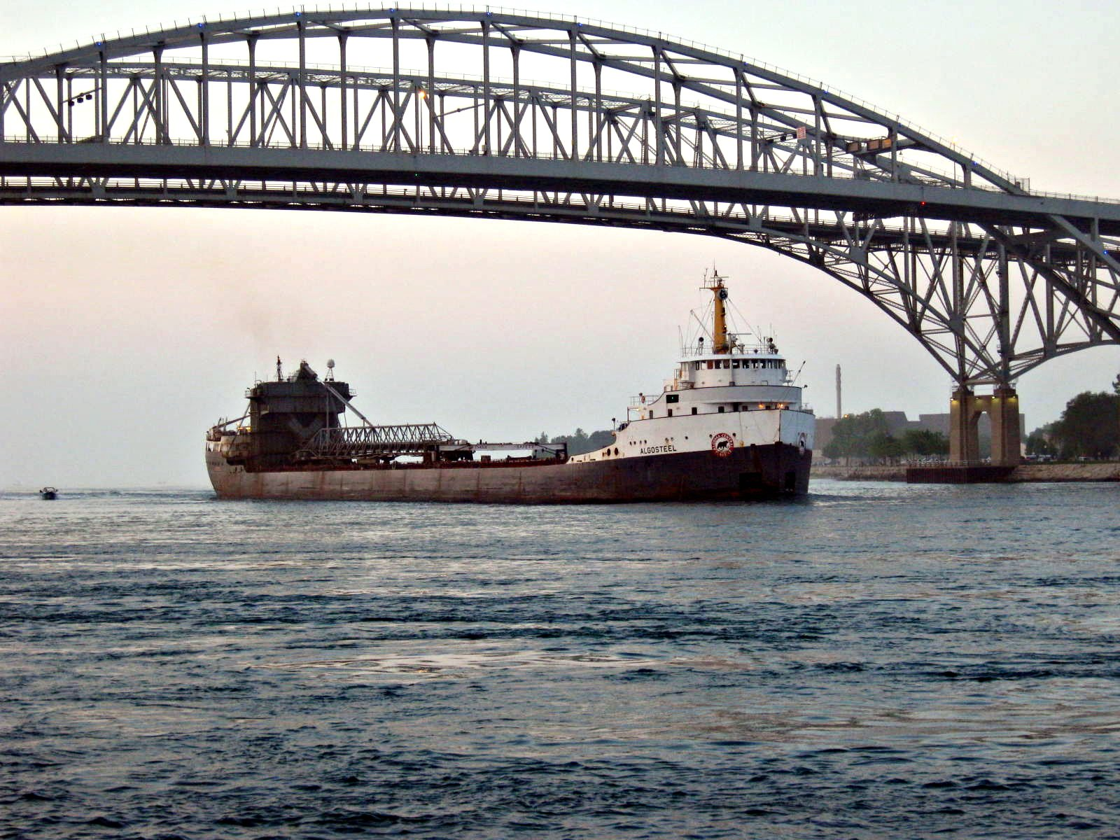 Algosteel under the Blue Water Bridges